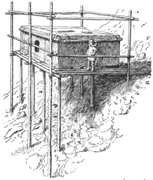 The original caption for this drawing in the book from which it came was "Eskimo fisherman's summer house, Alaska (Nelson)". It was located on page 250 of that book.